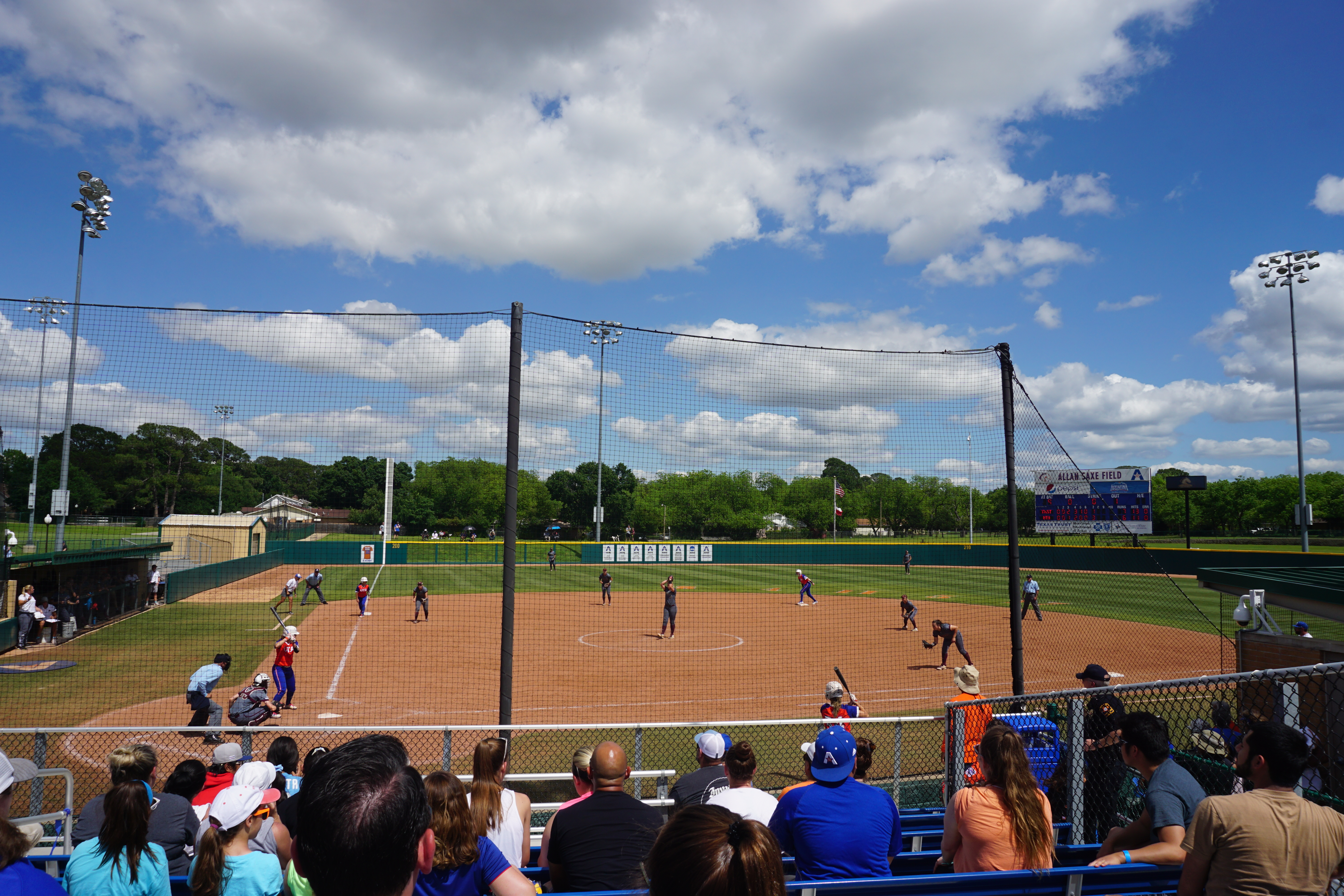 In-game action during the Texas State Bobcats vs. UT Arlington Mavericks softball game at Allan Saxe Field in Arlington, Texas (United States). UT Arlington won 8–7.